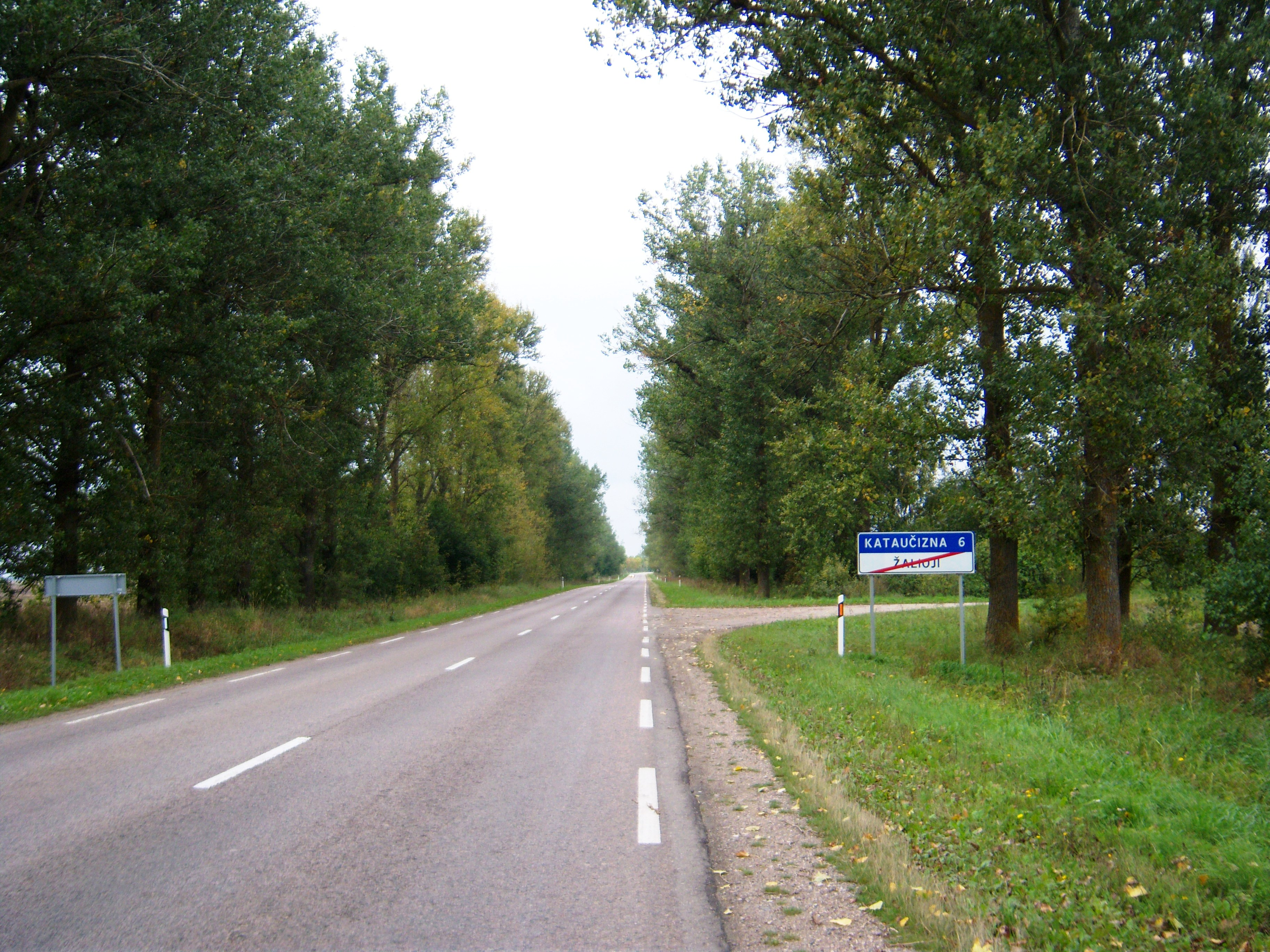 National road KK138, Žalioji, Vilkaviškis District, Lithuania